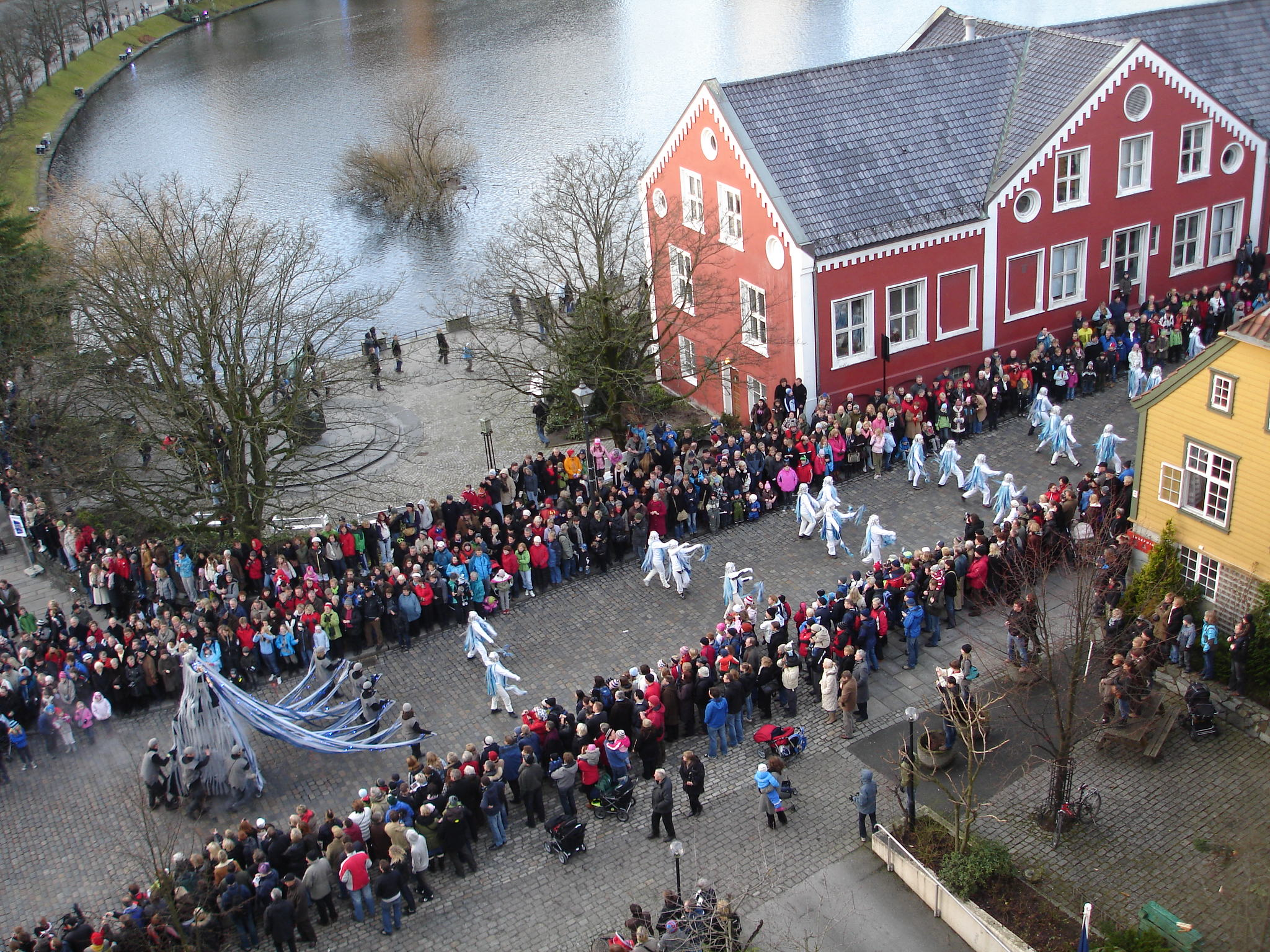 European Capital of Culture 2008 - Stavanger - Opening parade